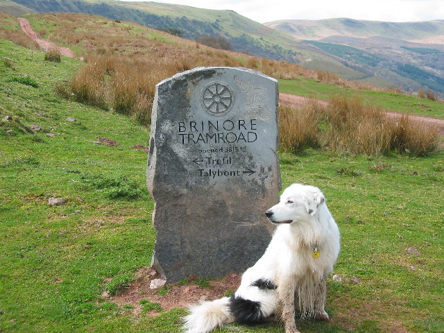 Stone sign marking Bryn Oer Tramroad. The Bryn Oer Tramroad was built to take stone from the quarries at Trefil and Tredegar for shipment on the canal at Talybont-on-Usk. All the route can be walked and some is a bridleway as well.